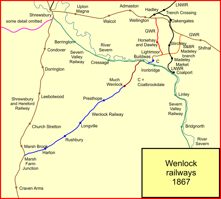 System map of the Wenlock Railway and other railway liens around Buildwas and Coalbrookdale, Shropshire, England, in 1867